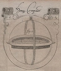 Mine surveyors compass by Balthasar Rösler, 1633.